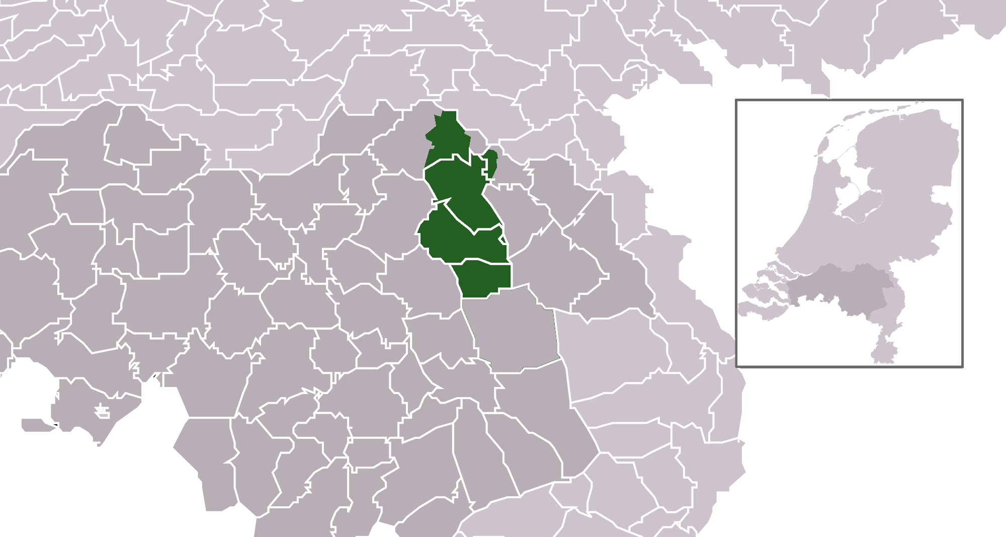 Former land of Ravenstein' Location maps for the 441 municipalities in the Netherlands. Boundaries 1/1/2009 Automatically generated with script File name contains "Municipality codes" (CBS-code) as specified in: [1] Created in svg using coordinate data derived from ESRI data published by Centraal Bureau voor de Statistiek, Voorburg/Heerlen. ([2]) Color coding and original design by user Mtcv (2006/2007) ([3])